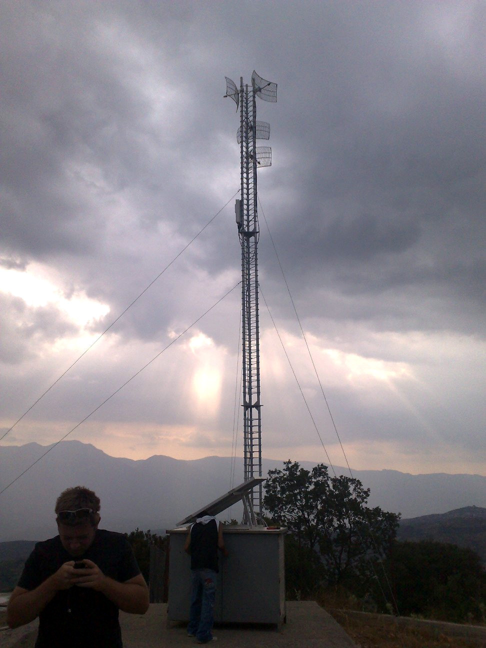 A CableFree Off-Grid Solar & Battery Powered Radio Base Site installed in Greece